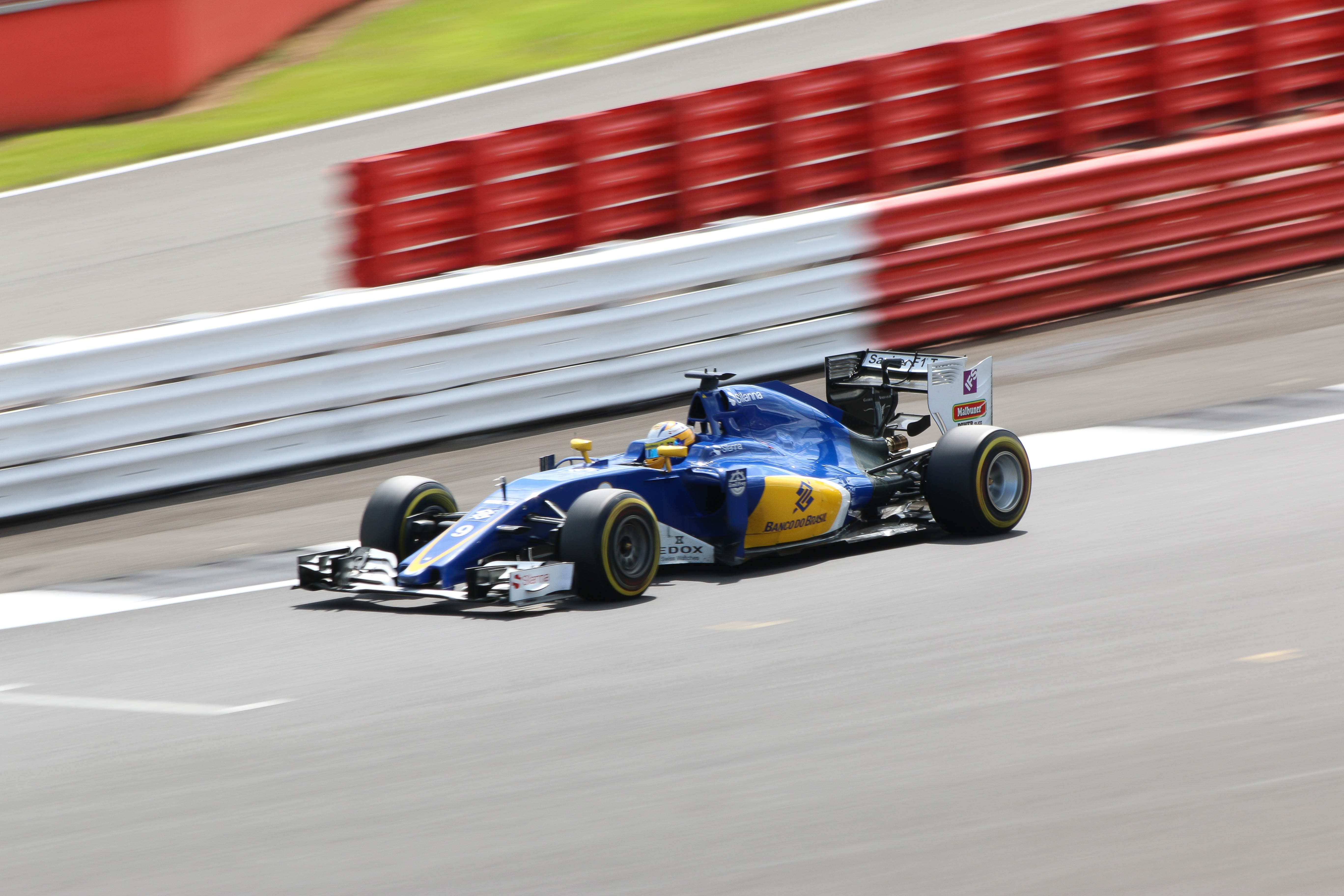 Felipe Nasr in the Sauber C35, 2016 British GP